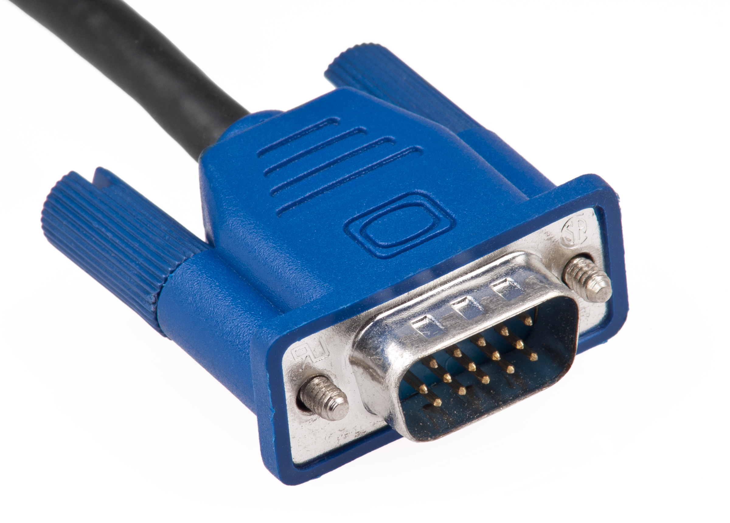 A standard VGA cable, used for hooking up computer monitors or other video equipment.